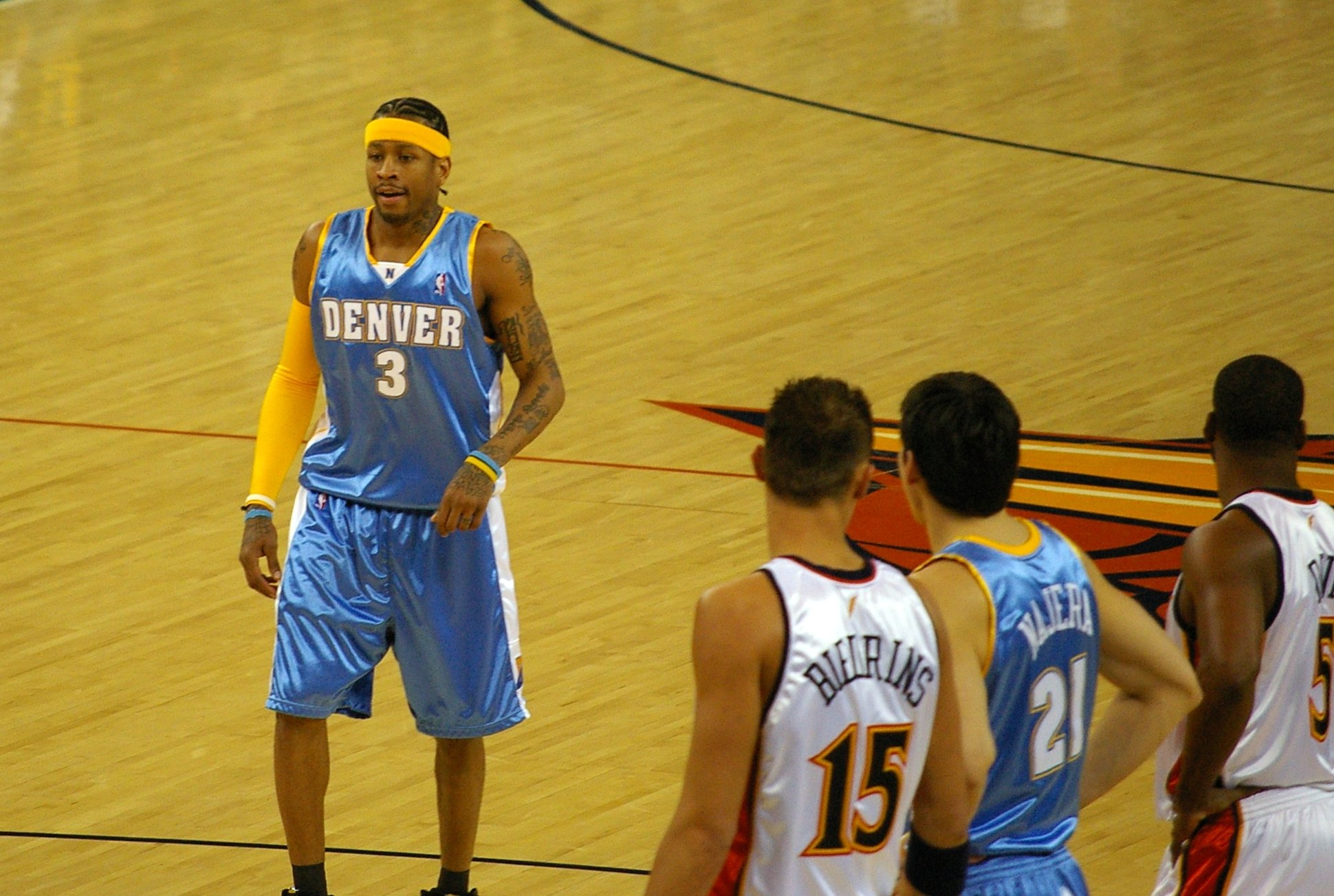 Practice makes perfect.